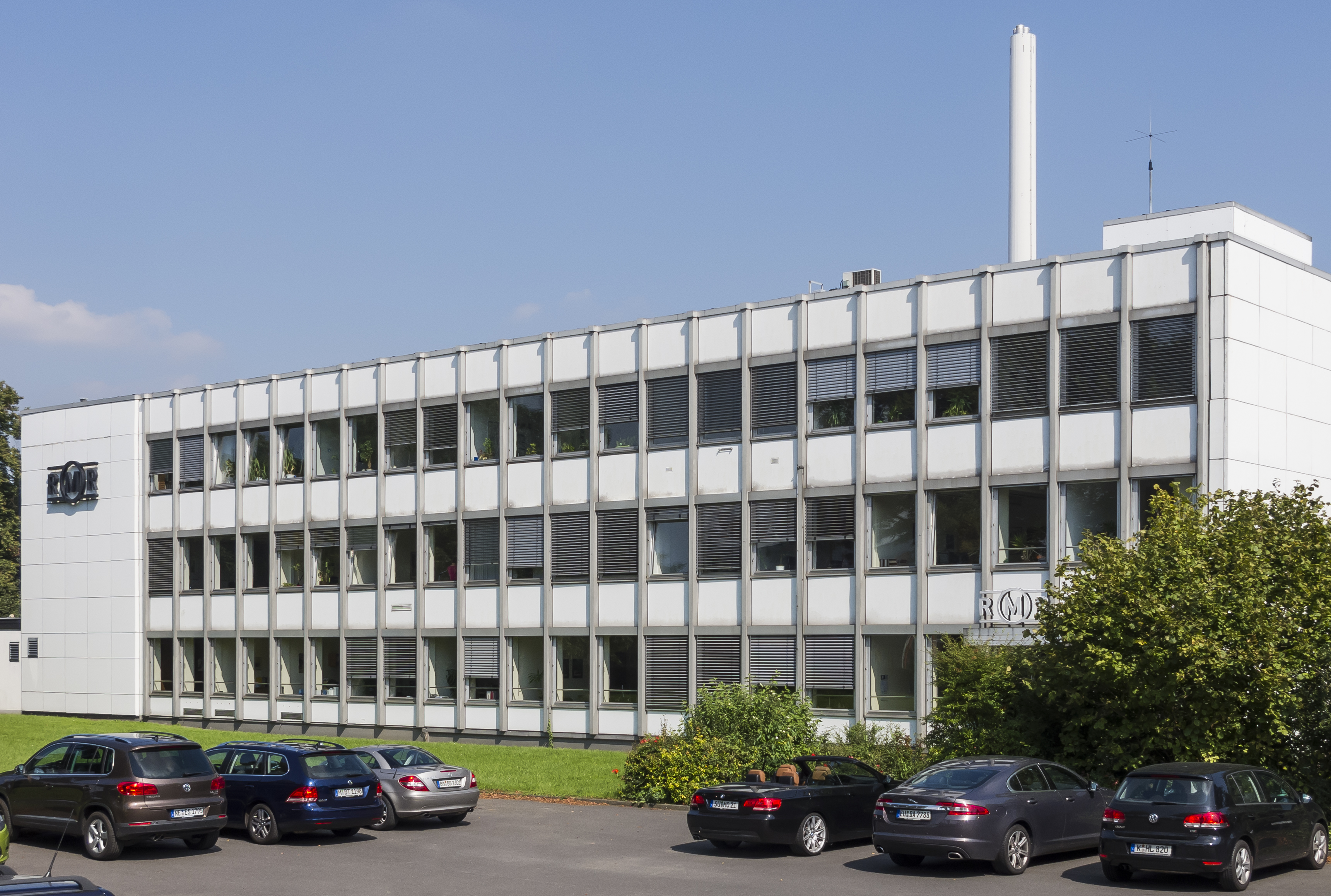 Headquarters of Rhein-Main-Rohrleitungstransportgesellschaft in Köln-Godorf